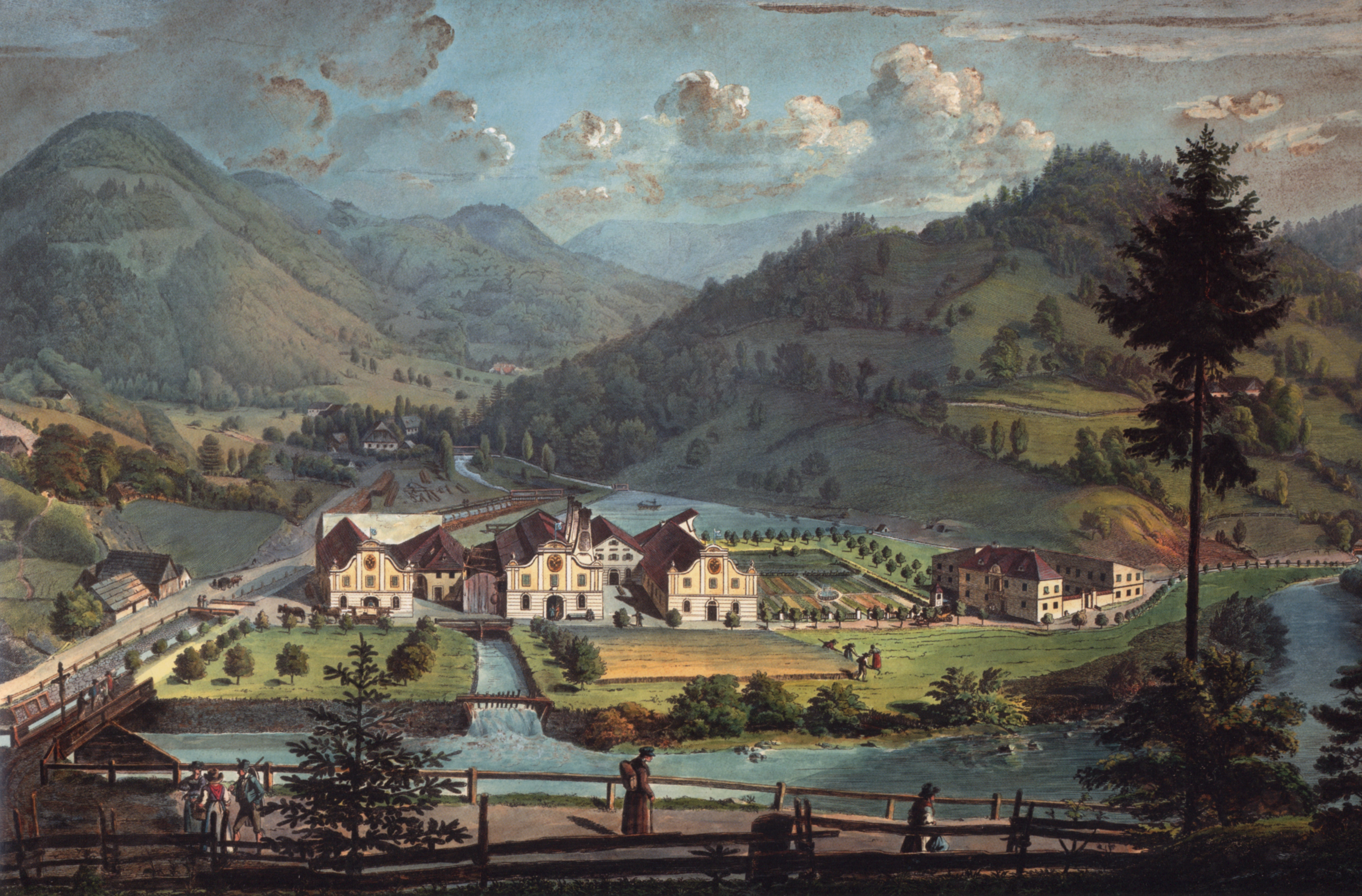 The iron rolling mill of Andreas Töpper in Neubruck, Scheibbs. ca. 1827label QS:Len,"The iron rolling mill of Andreas Töpper in Neubruck, Scheibbs. ca. 1827" label QS:Lde,"Neubruck bei Scheibbs, Toepperfabrik um 1827"